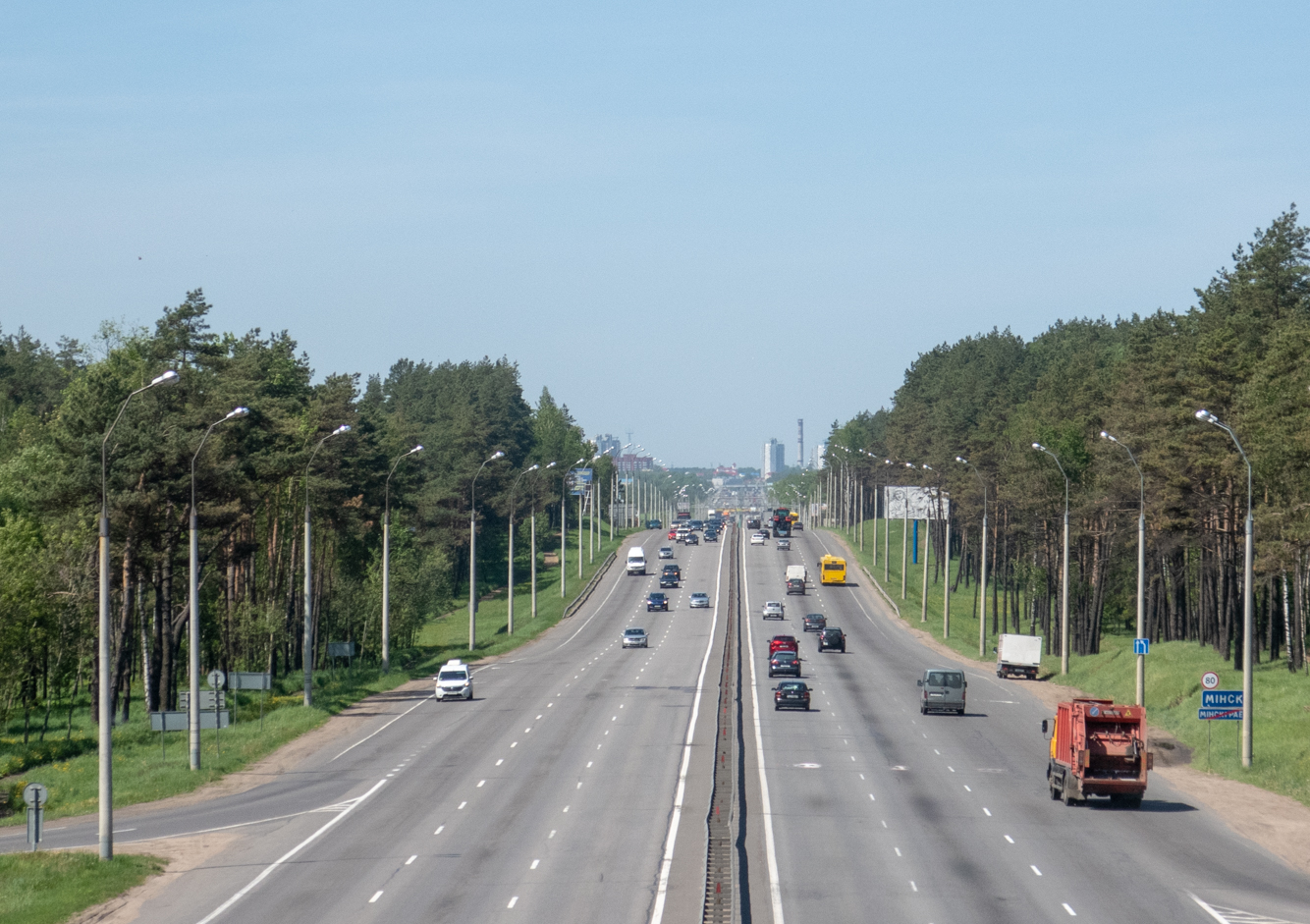 M4 (Minsk—Mahiliou) highway near Minsk